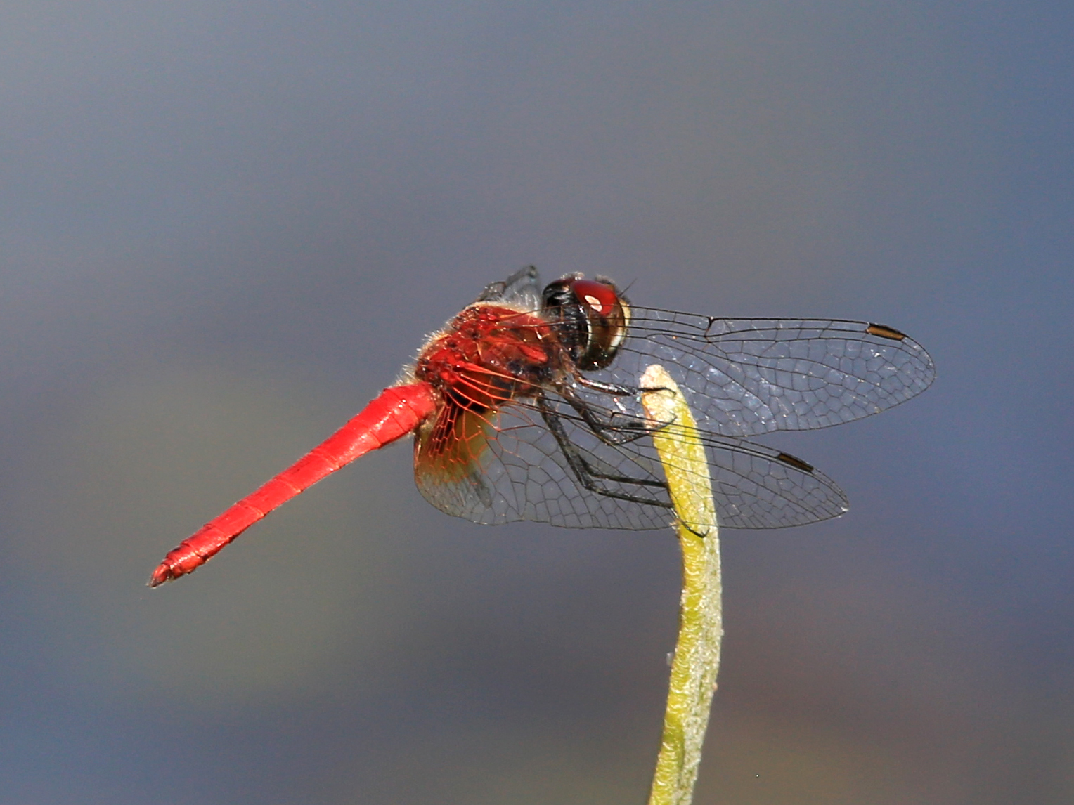 L-spot basker (Aethriamanta nymphaeae) is a small dragonfly found in north and north-eastern Australia. This specimen was photographed in Cairns, Queensland